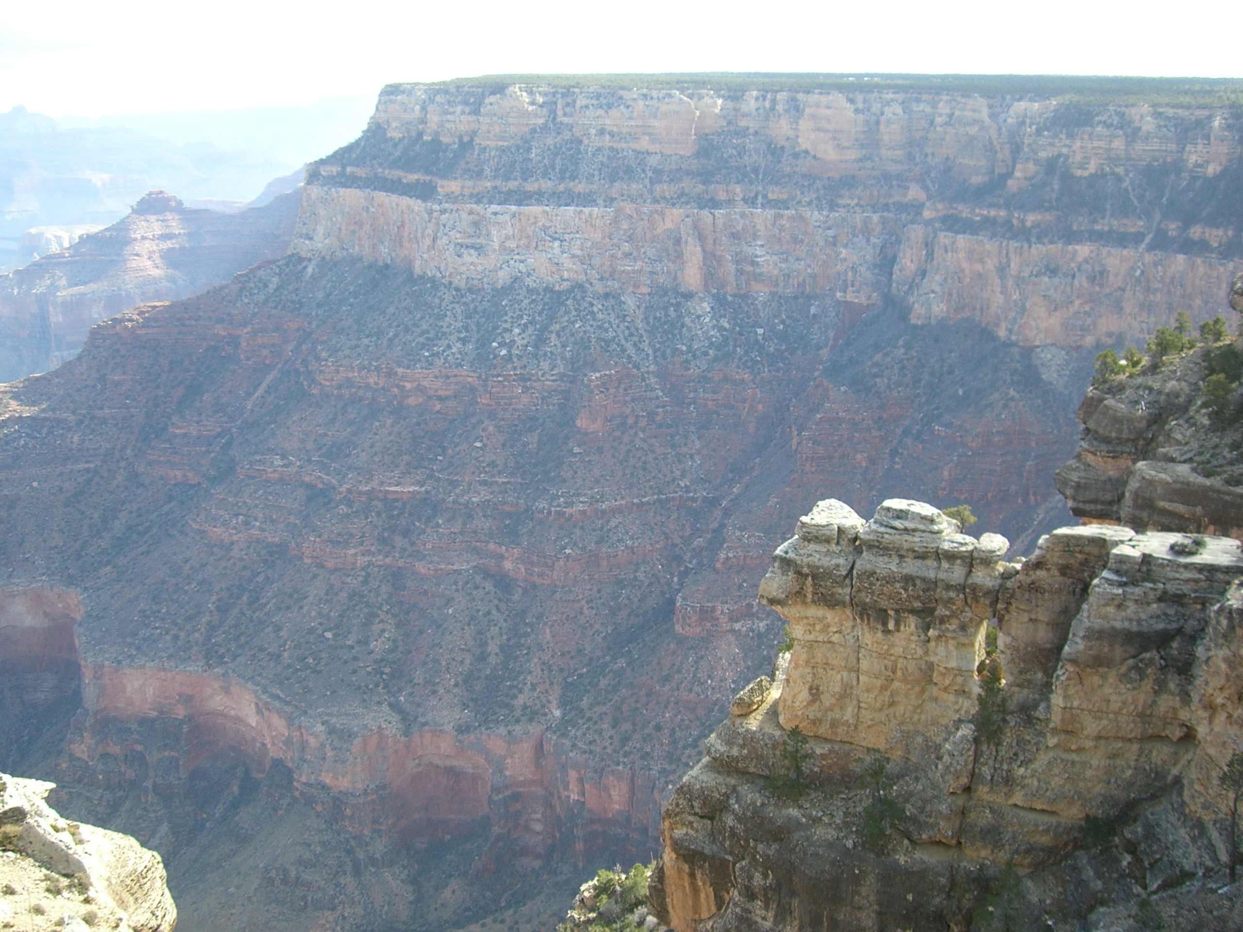 Grand Canyon, Arizona, USA.Kaibab Plateau (view to west), geologic units from Kaibab Limestone (top), to parts of the Supai Group (sloping units at photo-bottom).(The new slope-forming unit at photo-bottom, dull-colored, is the (?)-Redwall Limestone (soft, erosional, slope-forming), and the geologic unit directly below the (often red) Supai Group (mostly slope-forming-(whiter) interlayered with short sections of cliff forming (resistant, often reddish) rock. (If bottom layer not Redwall, then a slope-forming, lower sub-unit of the Supai Group.)) Hermit ShaleThe top 3 units (white), cliff-forming Kaibab Limestone, slope-forming, dark Toroweap Formation, and then the whitish, cliff-forming Coconino Sandstone — the 3 sit upon the 1 unit above the slope-forming Supai Group (as described above, (red/whites, interlayed). It is a "grayish", or dullish, slope-forming, Hermit Shale. It ranges in about 300 ft thickness, (Roadside Geology of Arizona, by Halka Chronic). (The Coconino is about 350 ft, and the Kaibab on top is up to 450 ft. thick-(about 350-400 in this photo).)